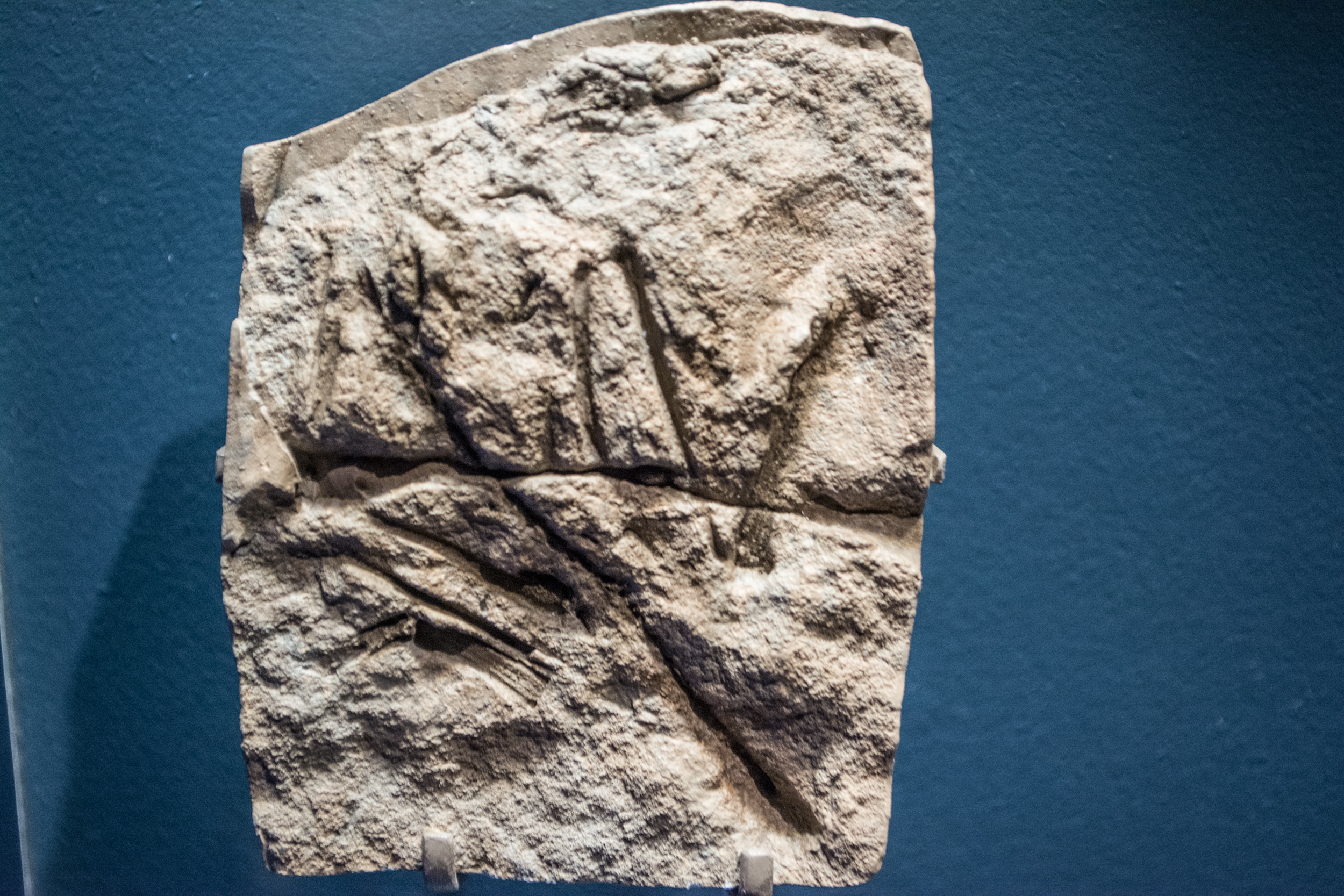 Cast of Scleromochlus taylori - Pterosaurs Flight in the Age of Dinosaurs